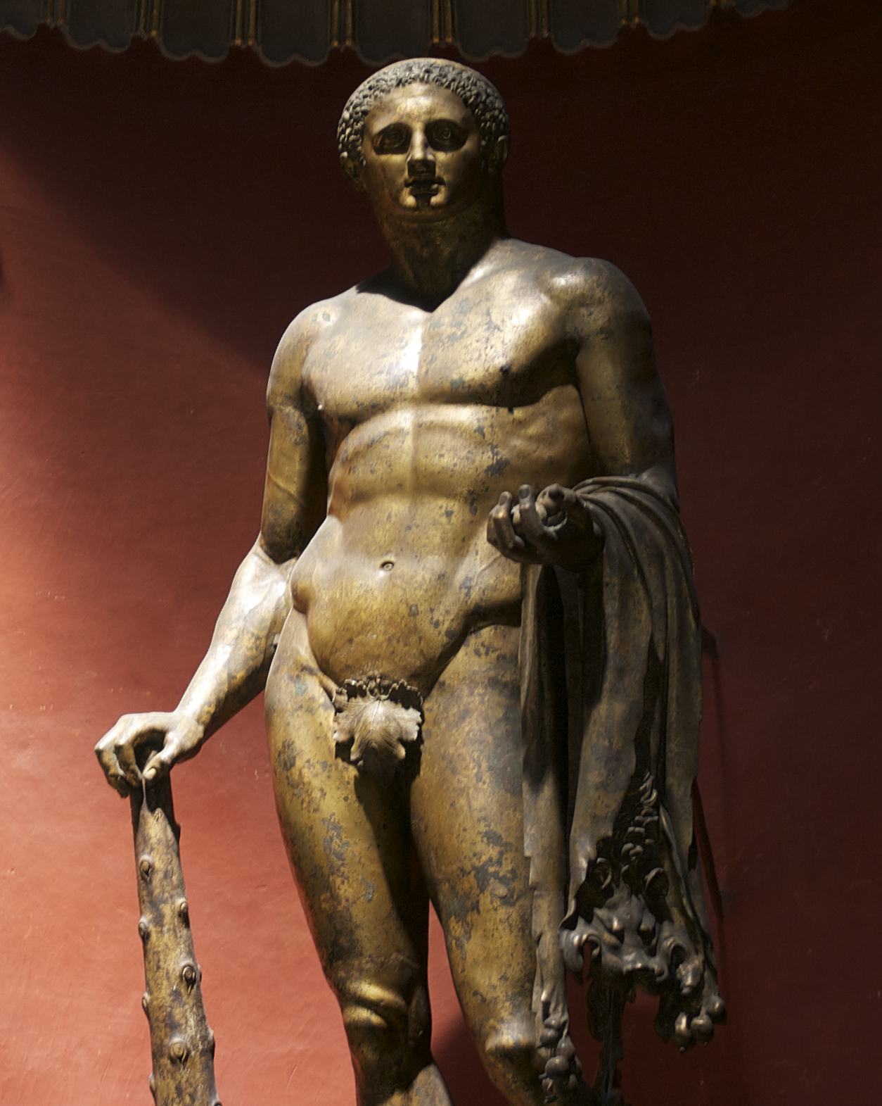 Statue of Hercules, Vatican museums.